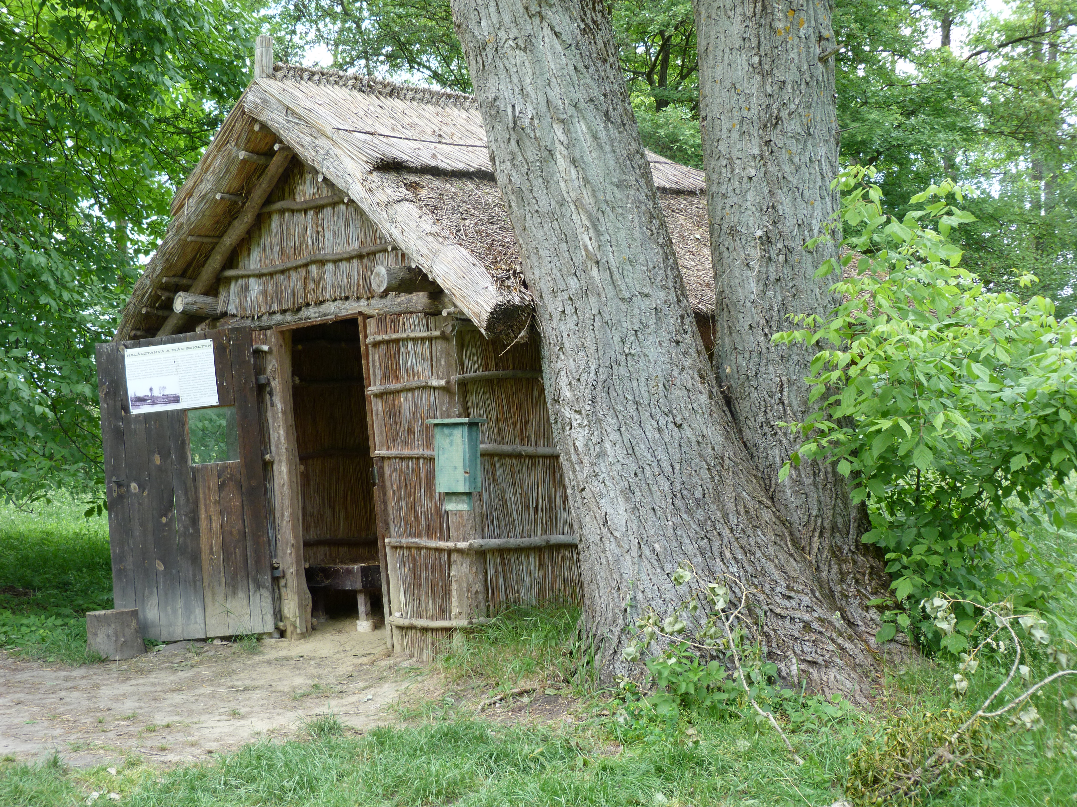 ""Matula hut" on Diás Island, Balatun Uplands National Park, district Kis-Balaton.